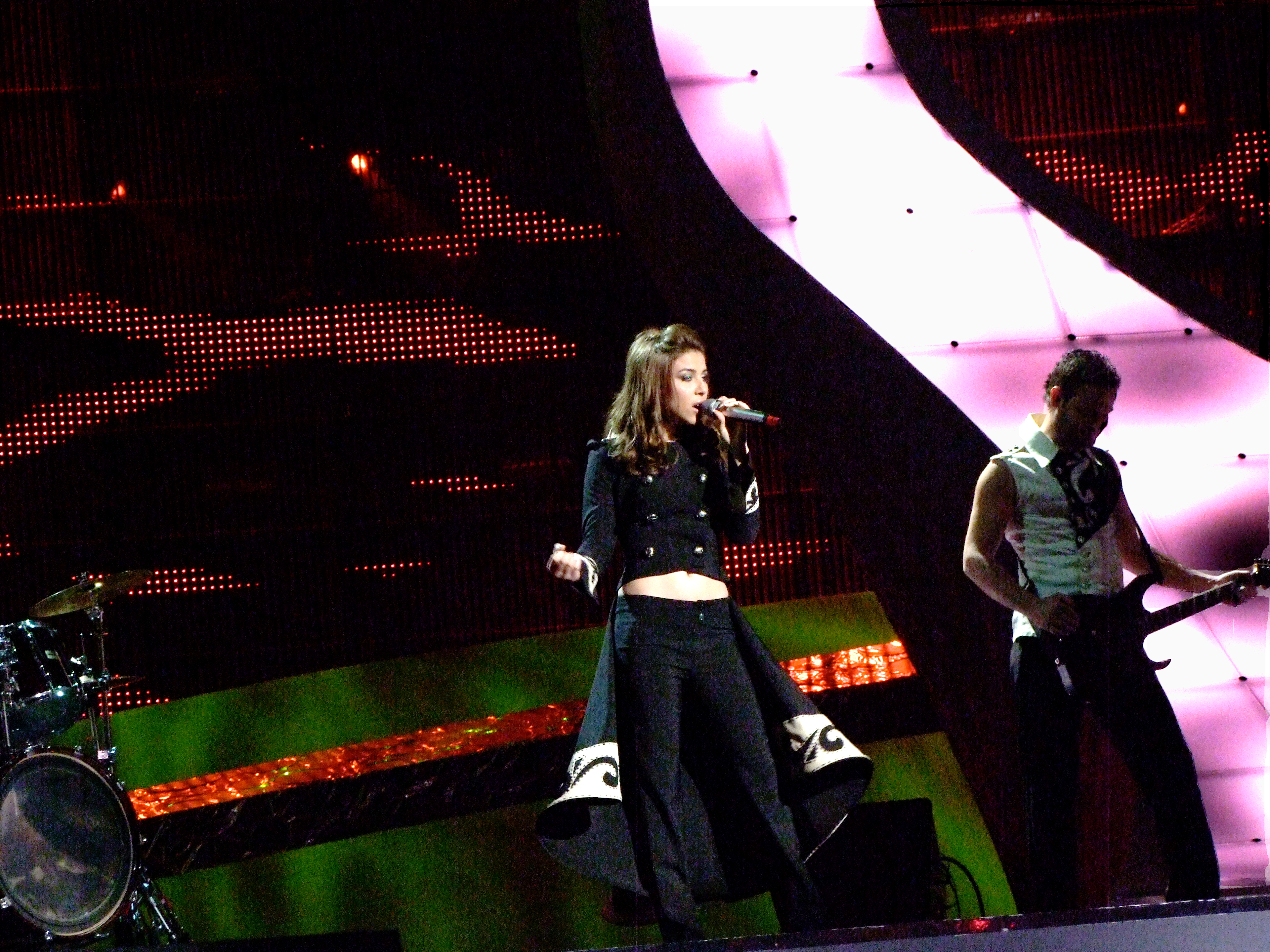 Olta Boka in the 2nd semi-final at the Eurovision Song Contest in Belgrade, Serbia, May 22, 2008.